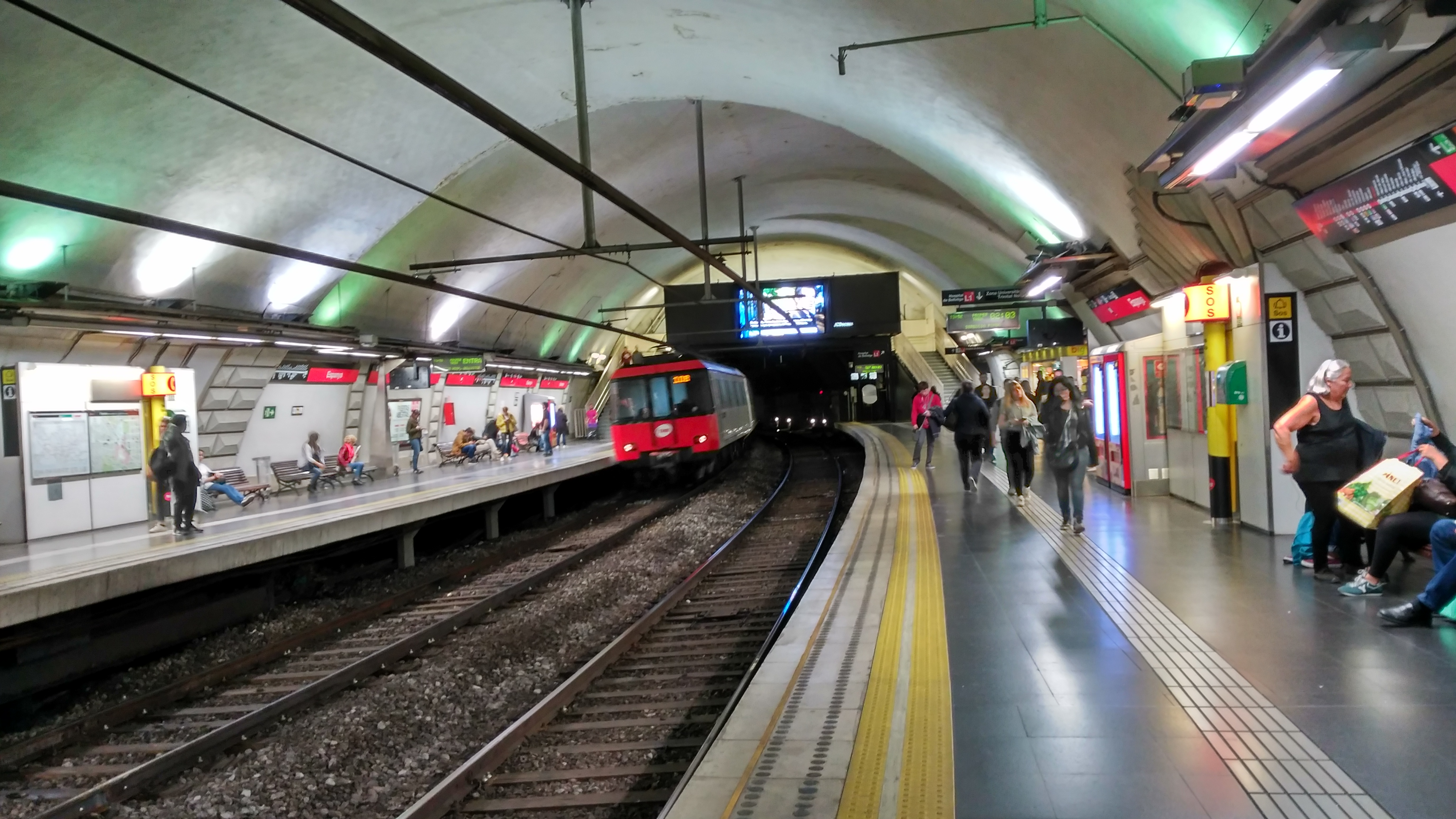 A 4000 series train calling at Espanya L1 station